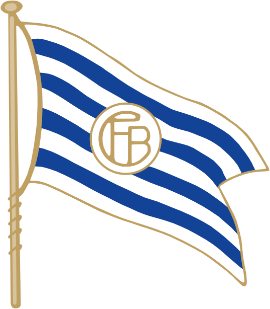 The first logo of FC Bayern München. In use from January 1901, until maybe 1902. Inspired by similar logos such as of Dresdner SC, oder some Berlin clubs.